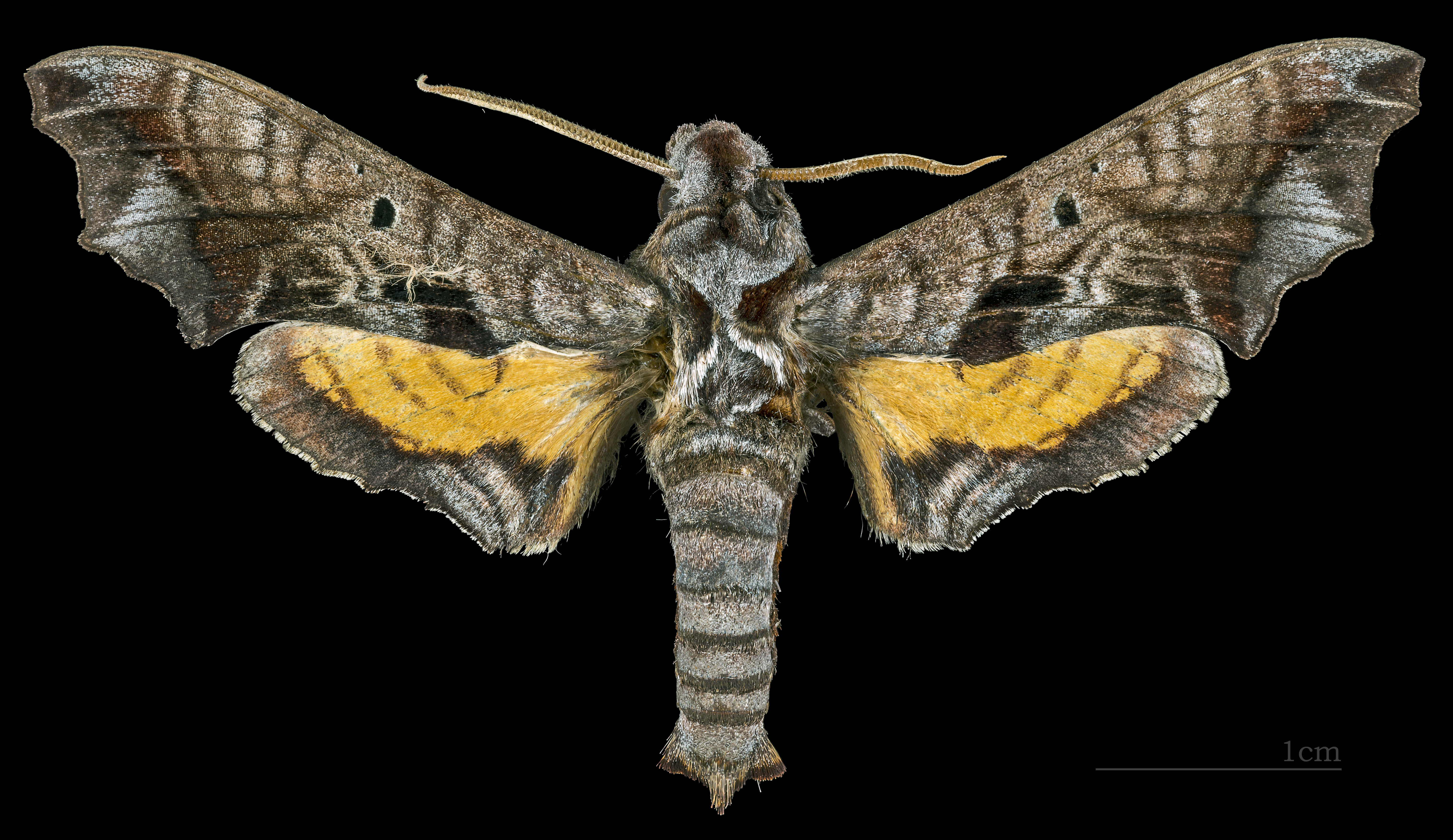 Nyceryx furtadoi - Dorsal side Paratype Collection of the Mathematician Laurent Schwartz